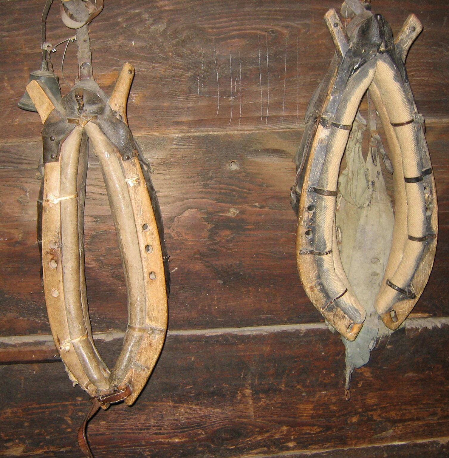 horse collar at the Freilichtmuseum Neuhausen ob Eck